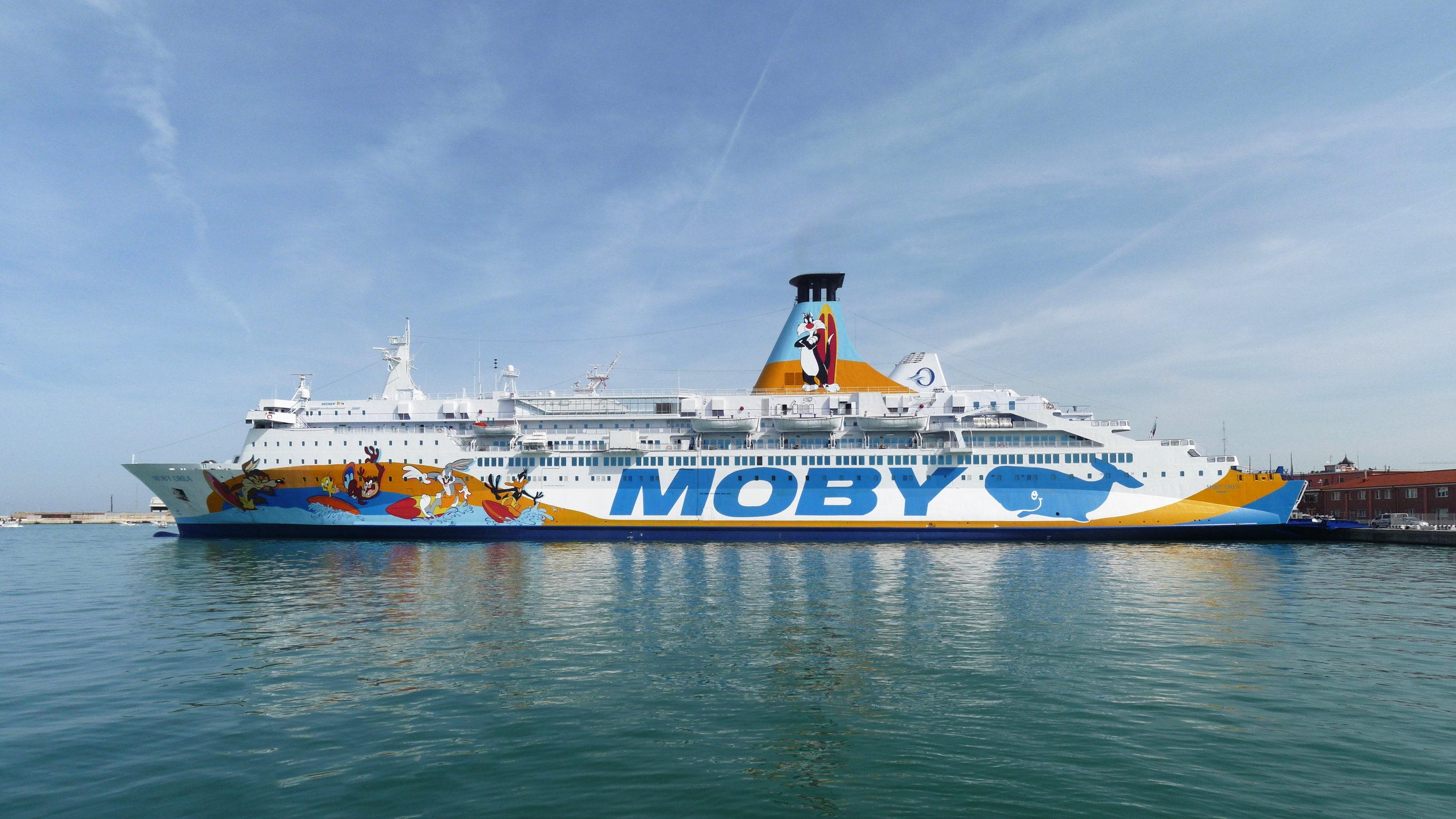 Ferry "Moby Drea" (originally "Tor Britannia"), Livorno port, Italy